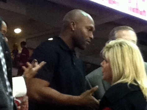 Torii Hunter conversing with University of Arkansas athletic director Jeff Long prior to a basketball game between the Arkansas Razorbacks and the Michigan Wolverines